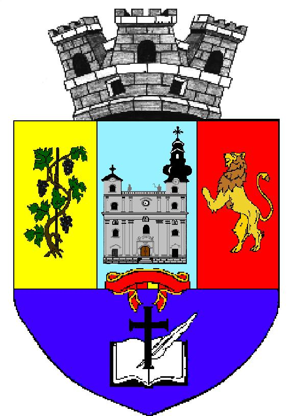 Coat of arms, Dumbrăveni, Romania